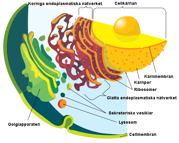 Modified for swedish text, original image by user LadyofHats on Commons.